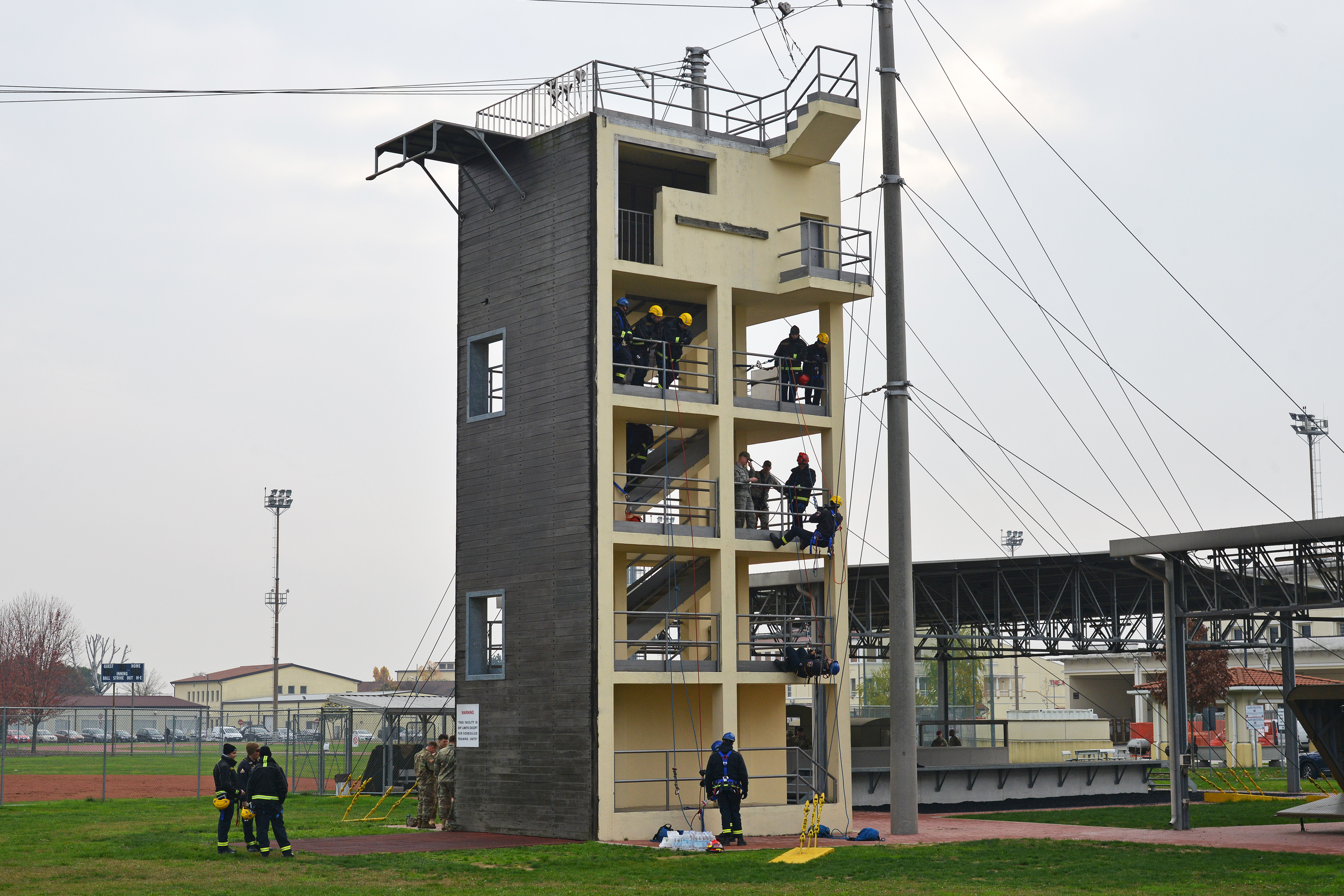 Firefighters assigned to U.S. Army Garrison Italy, rappel to rescue a victim at the 34-foot-high Army Training Command tower, during Department of Defense Technical Rope Rescue 1, Caserma Ederle, Vicenza, Italy, Nov. 10, 2016. Firefighters here received training from instructors of the 435th Construction and Training Squadron, Ramstein Air Base, Germany. Training included a variety of rescue techniques and scenarios including operational risk management, incident management system, ground support for helicopter operations and confined space rescue. This training is vital to keep first responders proficient in procedures in the event that a rescue requires such skills. (Photo by Visual Information Specialist Paolo Bovo/Released) Unit: Training Support Activity Europe